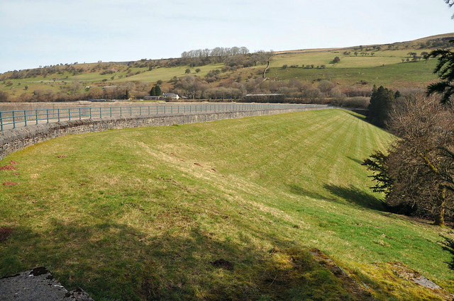 The dam at Pontsticill Reservoir. Looking from the West. Opposite view to 1208918.